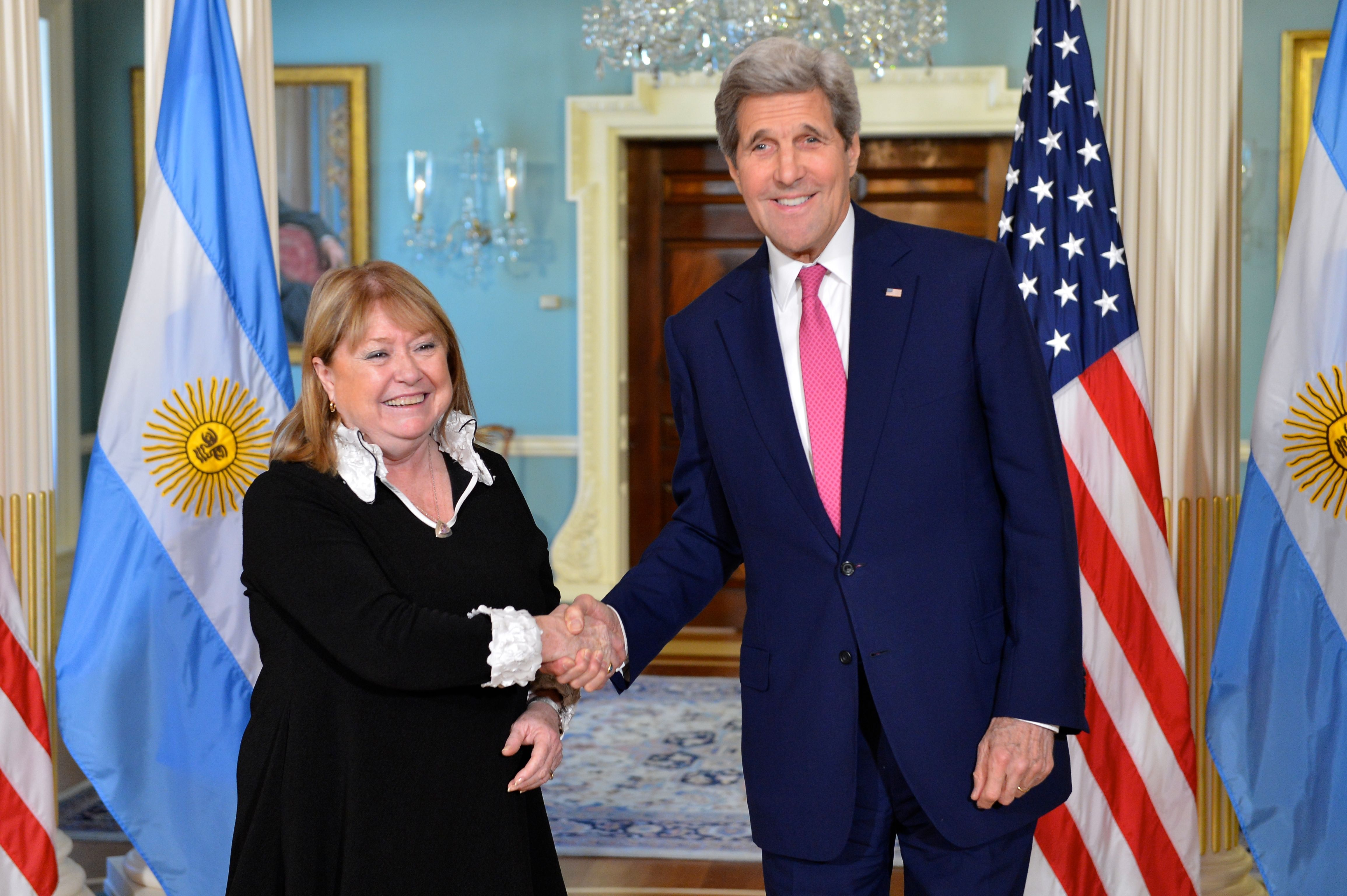 U.S. Secretary of State John Kerry and Argentine Foreign Minister Susana Malcorra shake hands after addressing reporters at the U.S. Department of State in Washington, D.C., on March 30, 2016. [State Department photo/ Public Domain]